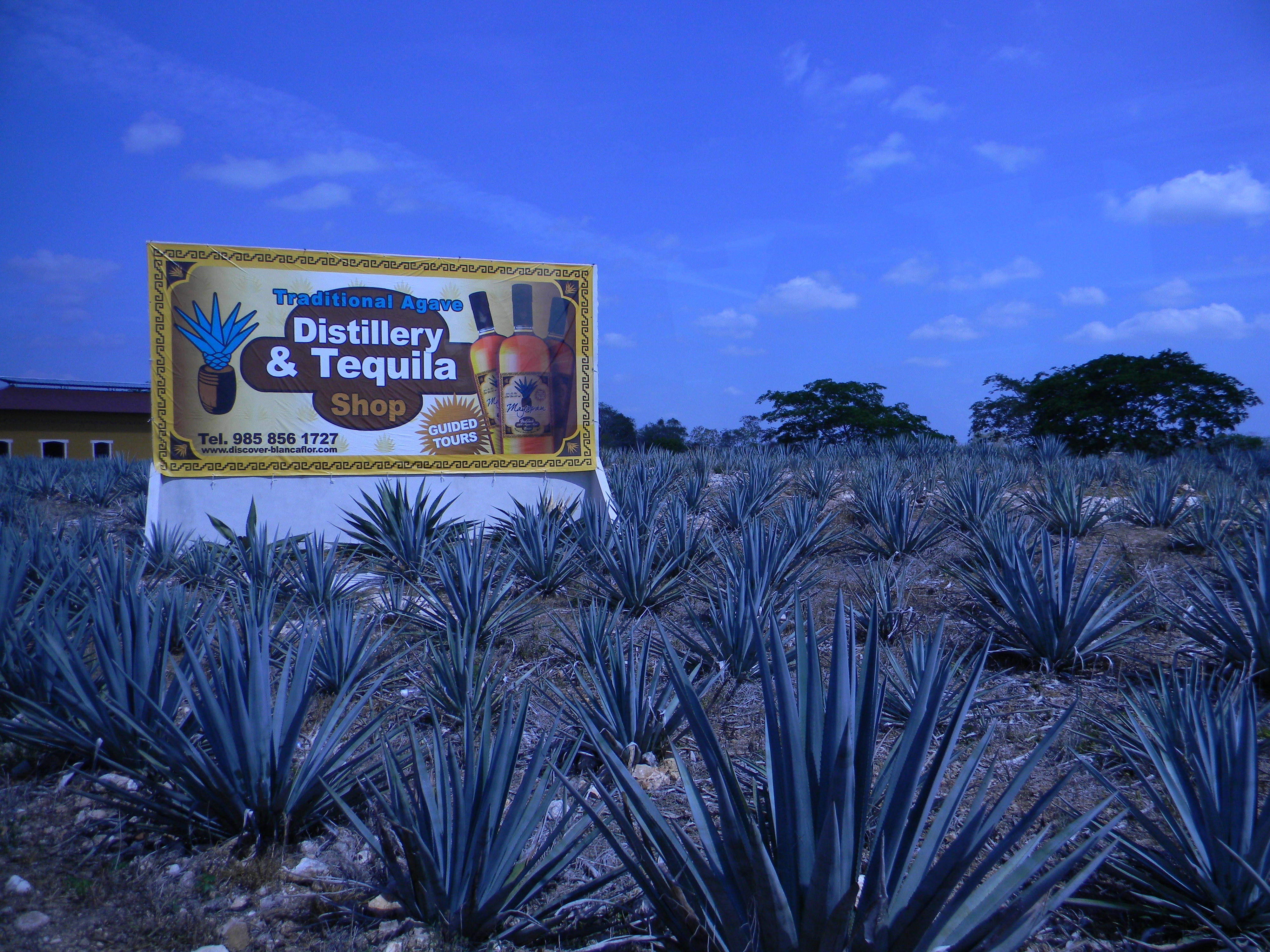 Agave tequilana field on Yukatan peninsula, Destillery sign